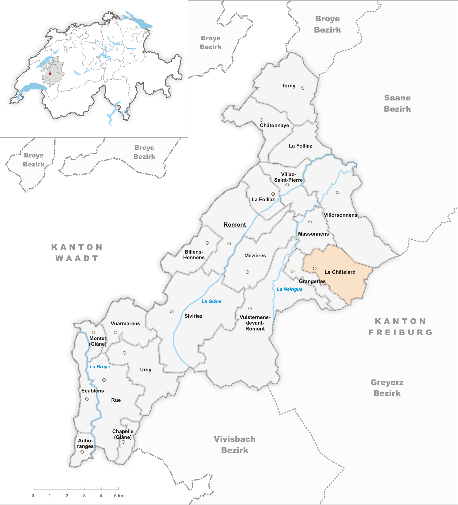 Municipality Le Châtelard